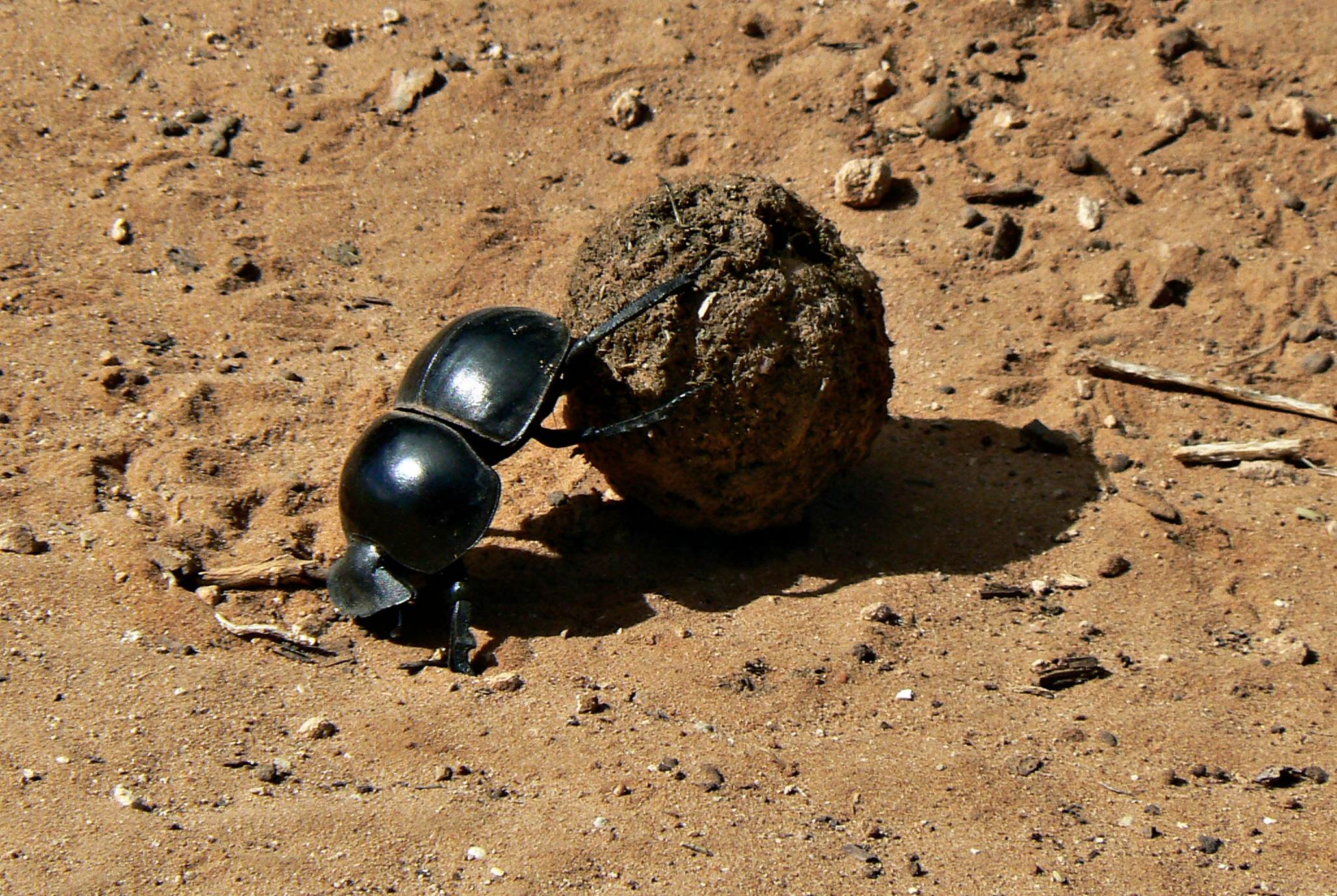 The Flightless Dung Beetle (Circellium Bachuss) at Addo Elephant National Park, South Africa